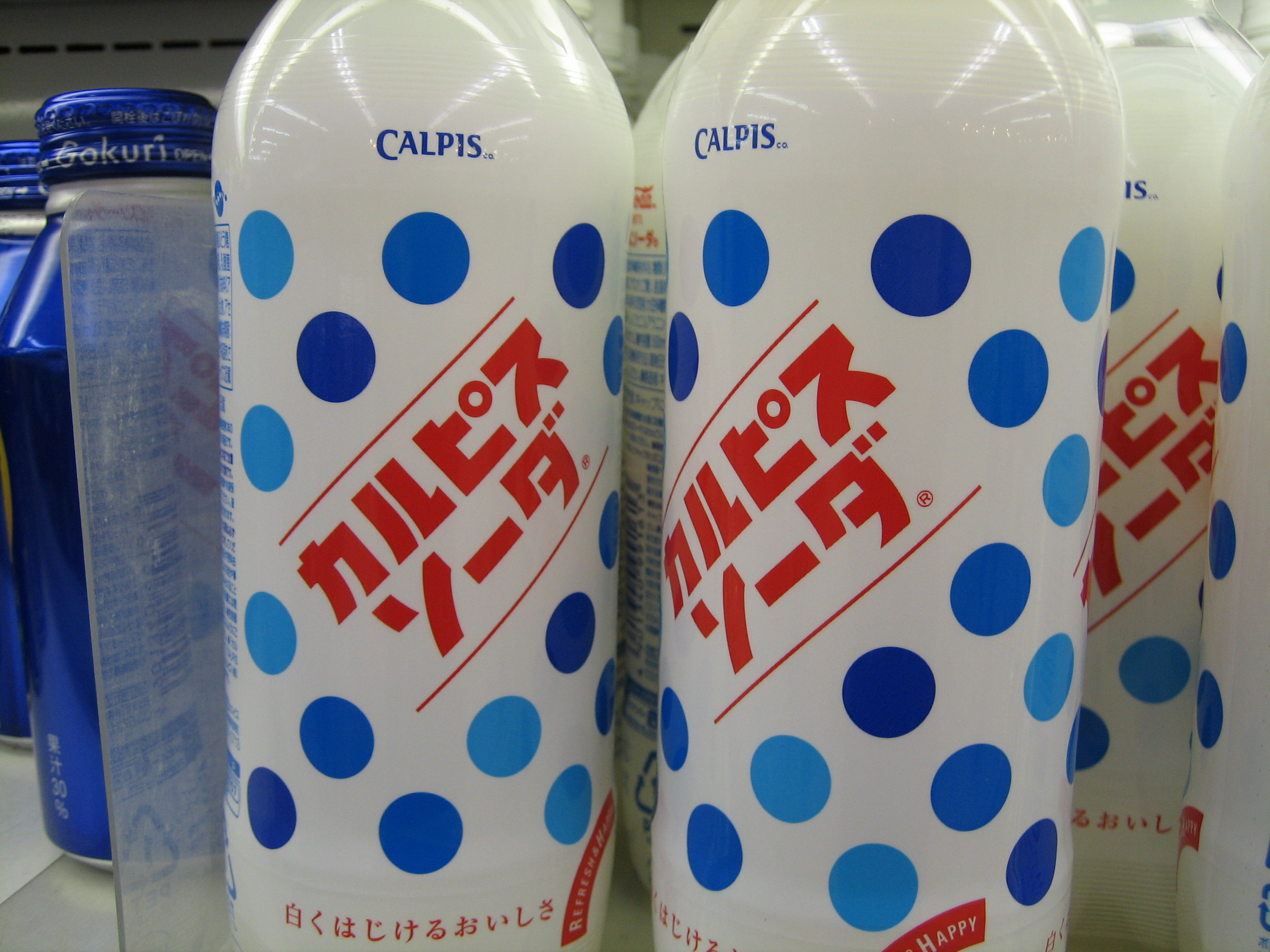 This photo was taken on April 29, 2006 using a Canon PowerShot SD400.